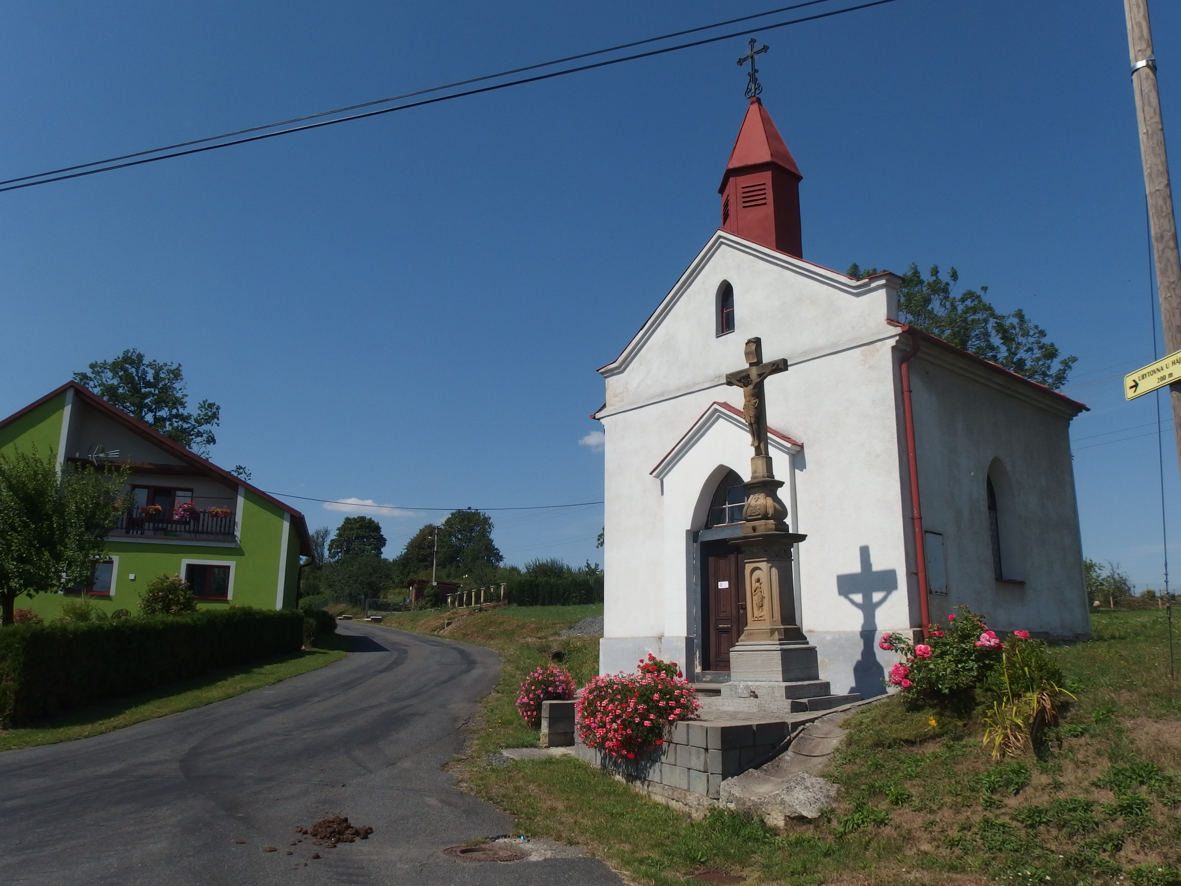 Hustopeče nad Bečvou, Přerov District, Czech Republic, part Hranické Loučky. Chapel of Our Lady of Sorrows.